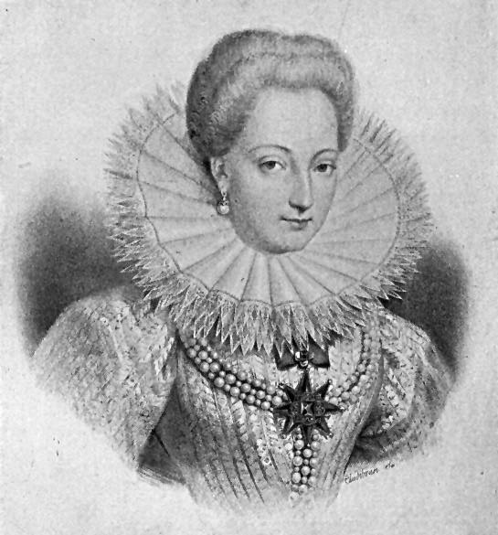 Portrait of Gabrielle d’Estrées (photogravure)